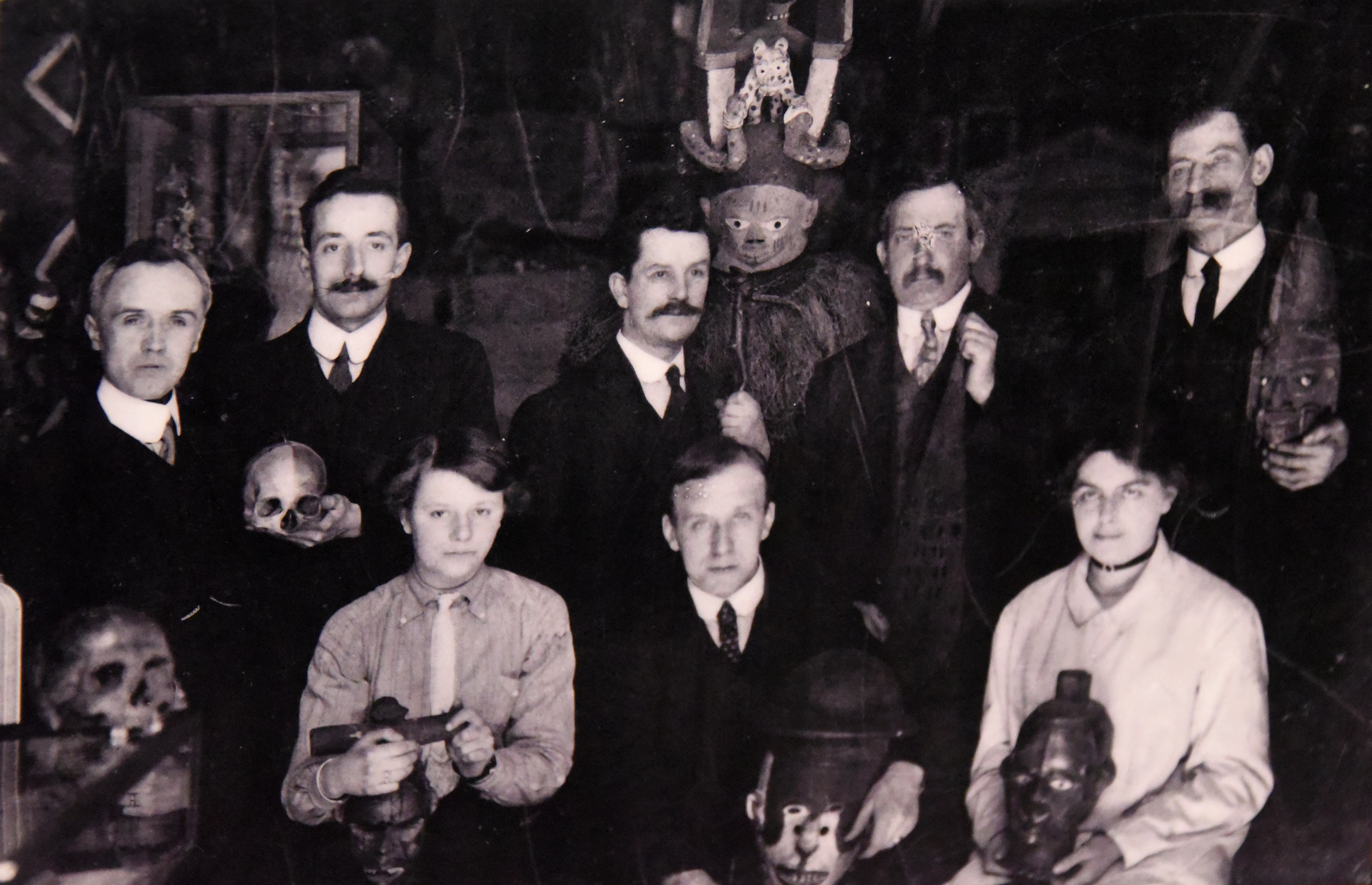 Wellcome Museum staff, c. 1915. Unknown photographer. The picture is housed in the Wellcome Collection and is on display. The original black&white picture is ©Wellcome Trust.